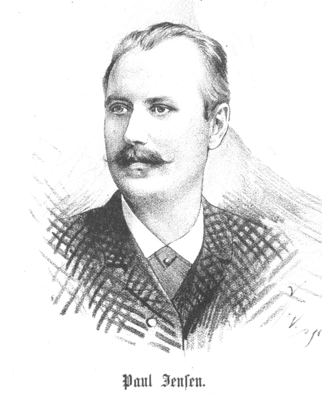 Portrait of Paul Jensen (1850-1931), German actor